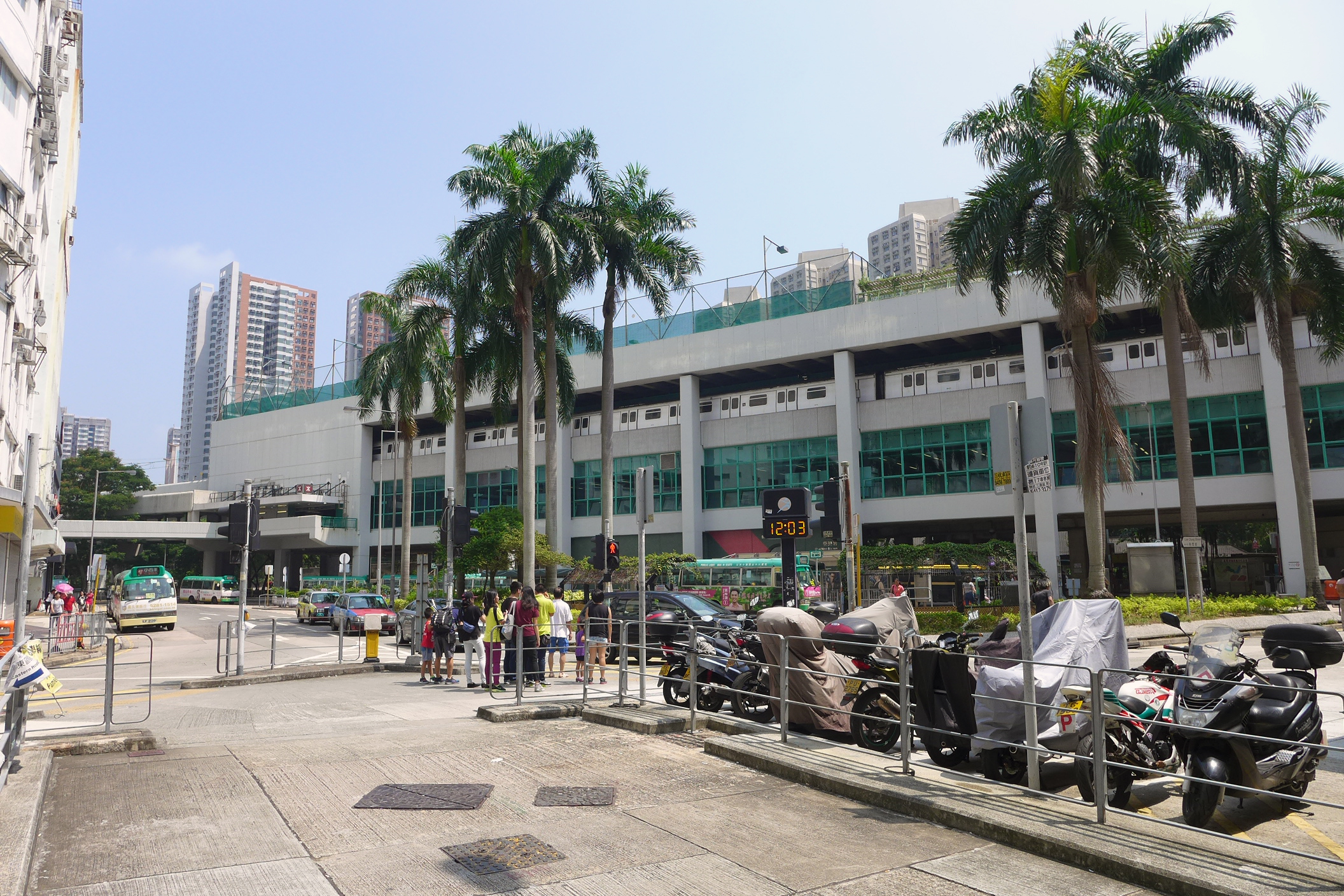 Chai Wan Station Exterior